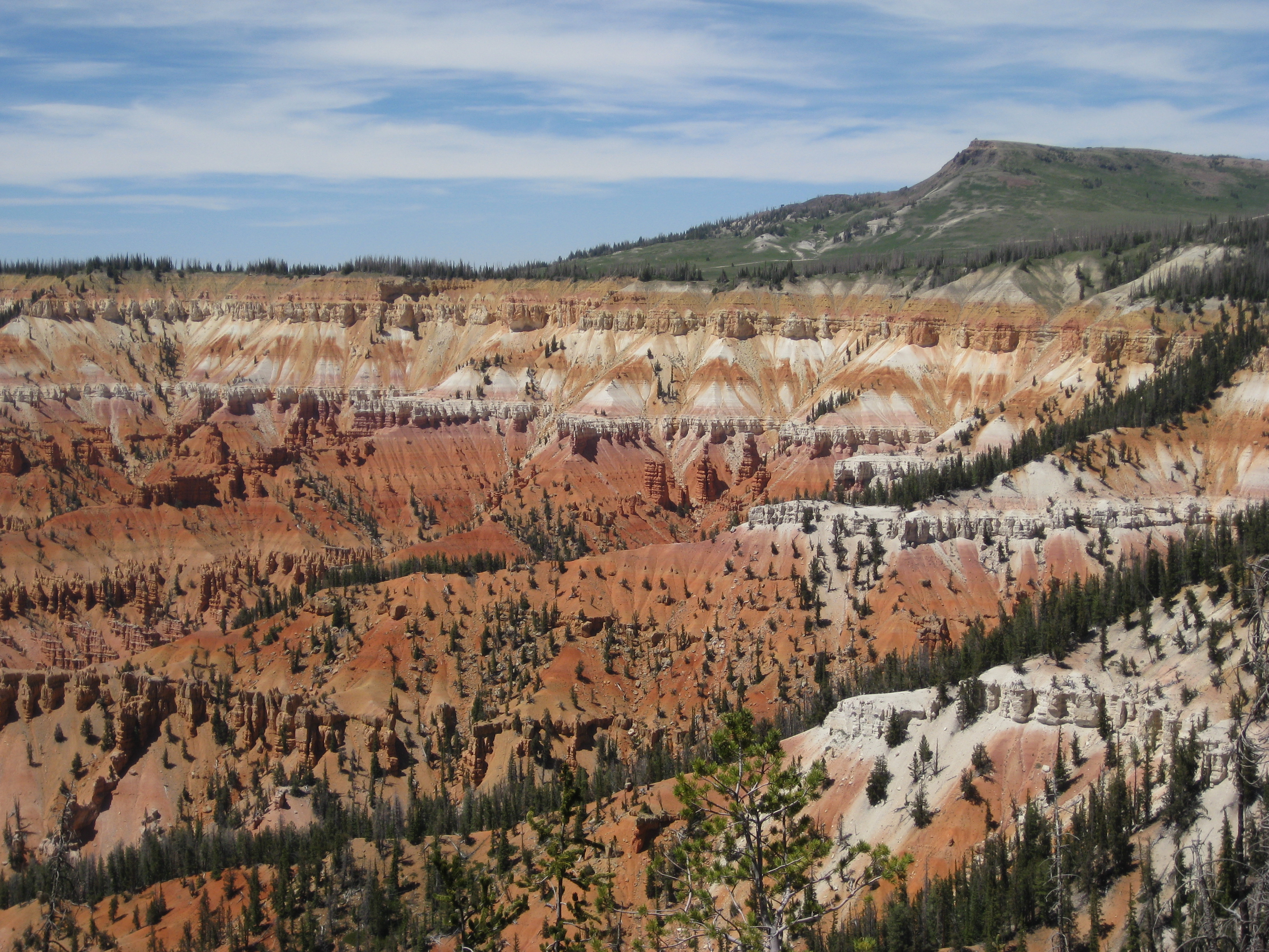 Cedar Breaks National Monument is a great place to explore. It is located in Iron County, Utah, USA. The elevation of this short walk is about 3000 meters (10000 feet). Brian Head Peak is in the background.